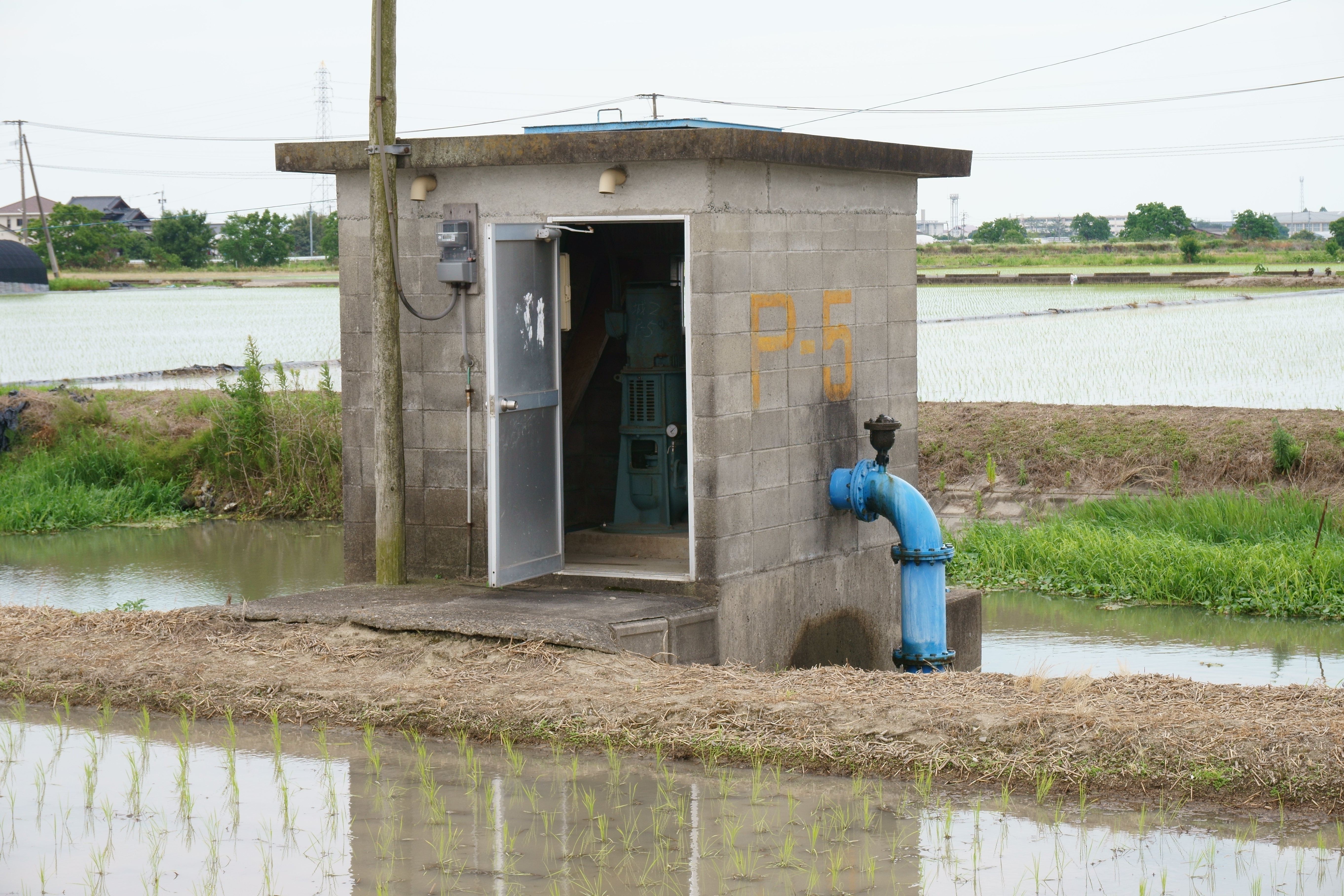 Irrigation and reuse of water in rice farming. Pumping up the water from drainage/strage creeks and send to pipe network over paddy fields for reuse. In Honjo-machi, Saga city, Saga prefecture.